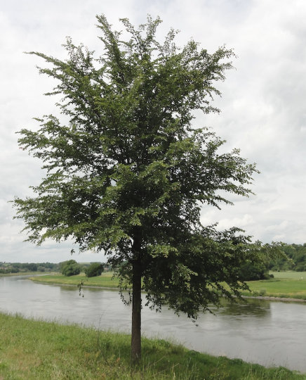 Photo of Ulmus minor 'Reverti' in Netherlands